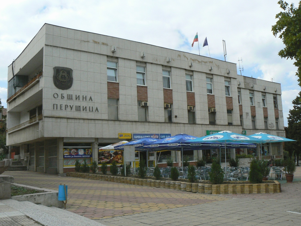 Building of Perushtitsa Municipality, Bulgaria